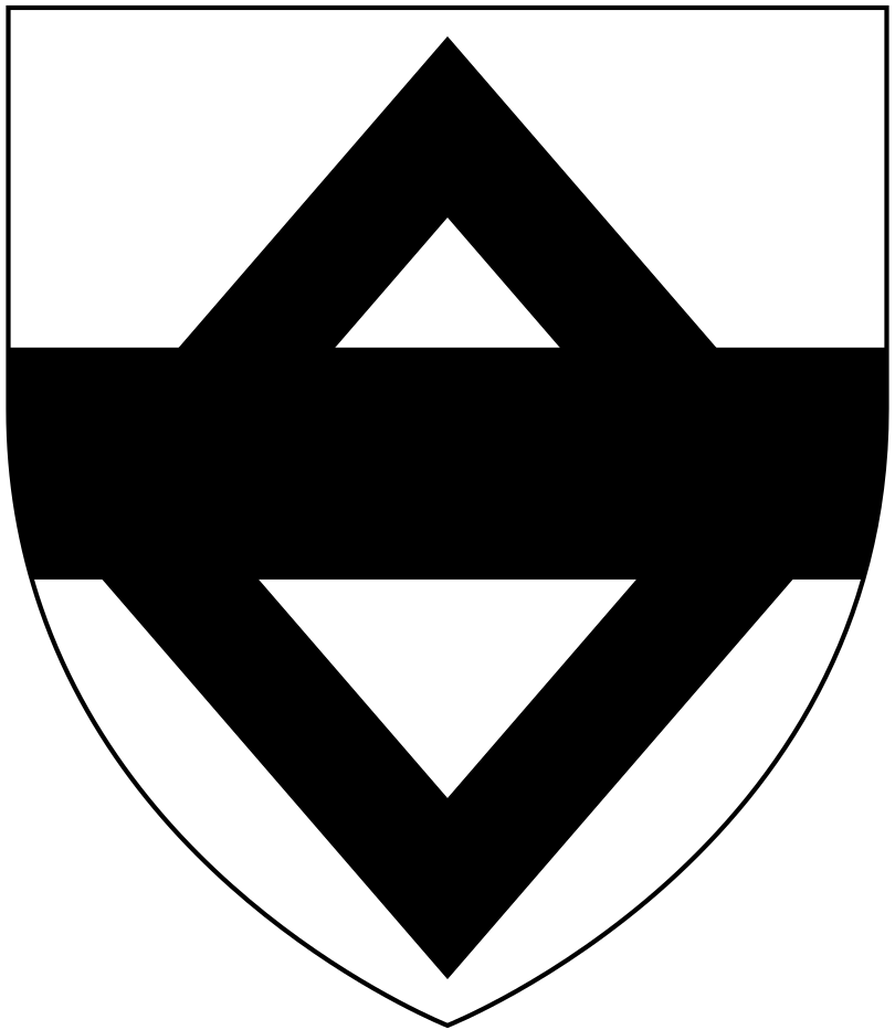 Arms of Hunkin of Gatherleigh in the parish of Lifton, Devon: Argent, a mascle sable over all a fess of the last (Vivian, Lt.Col. J.L., (Ed.) The Visitations of the County of Devon: Comprising the Heralds' Visitations of 1531, 1564 & 1620, Exeter, 1895, p.493).